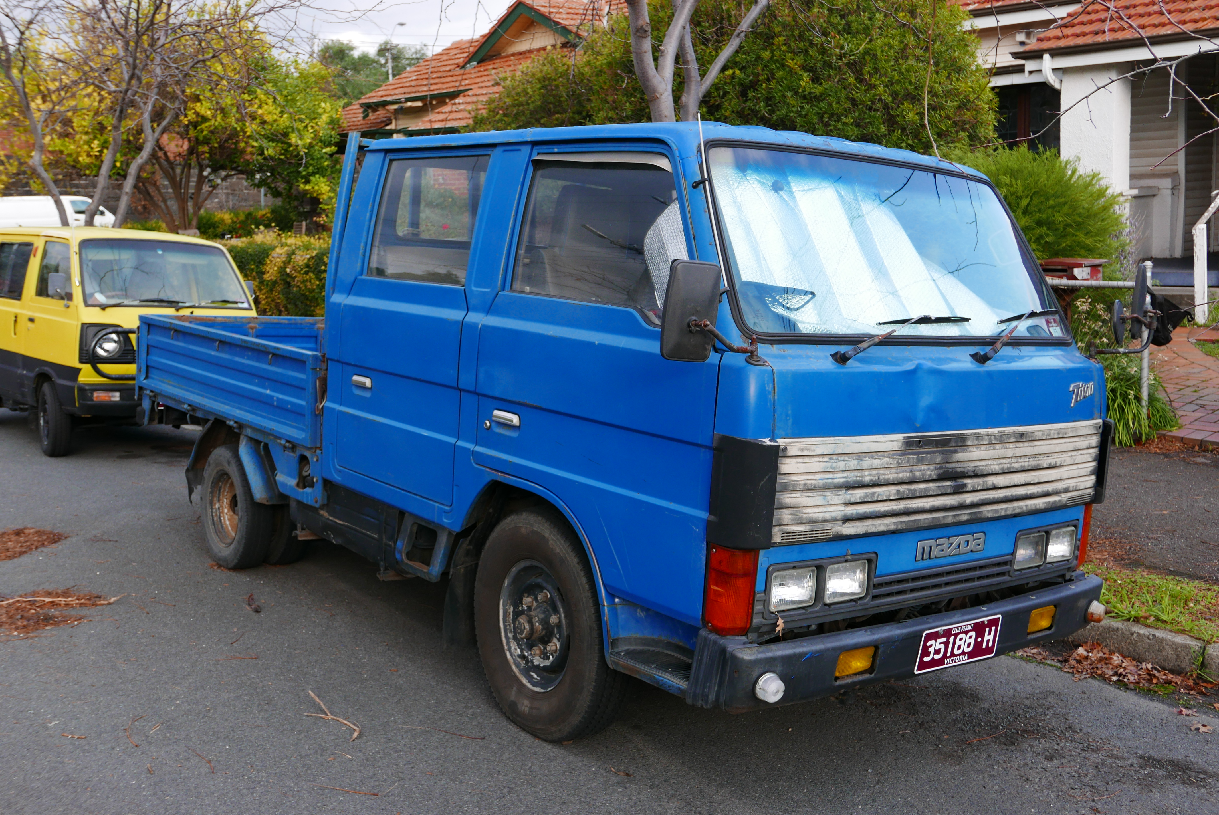 1987–1989 Mazda Titan 4-door truck. Photographed in Northcote, Victoria, Australia.